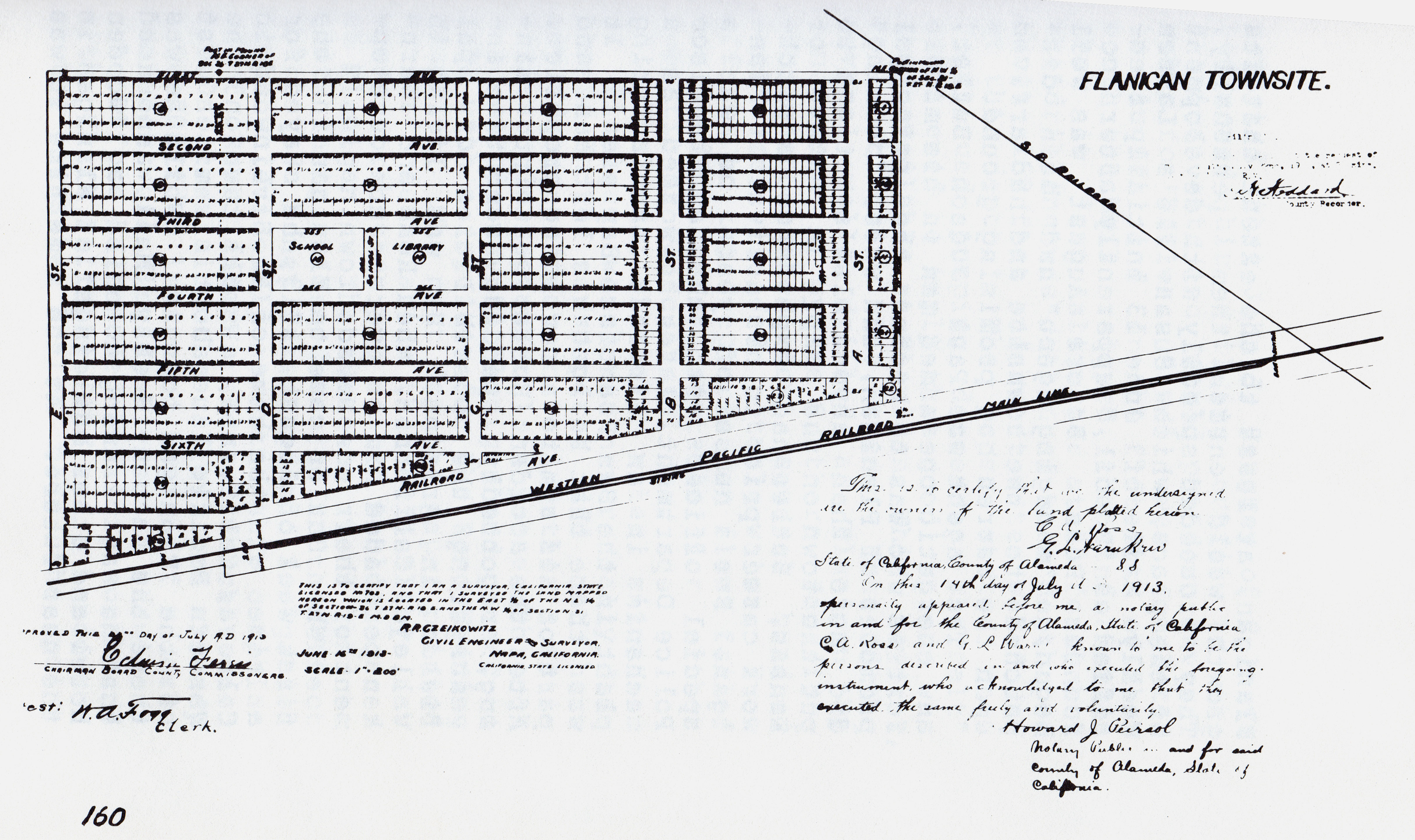 Survey map of Flanigan, Nevada townsite, 1913